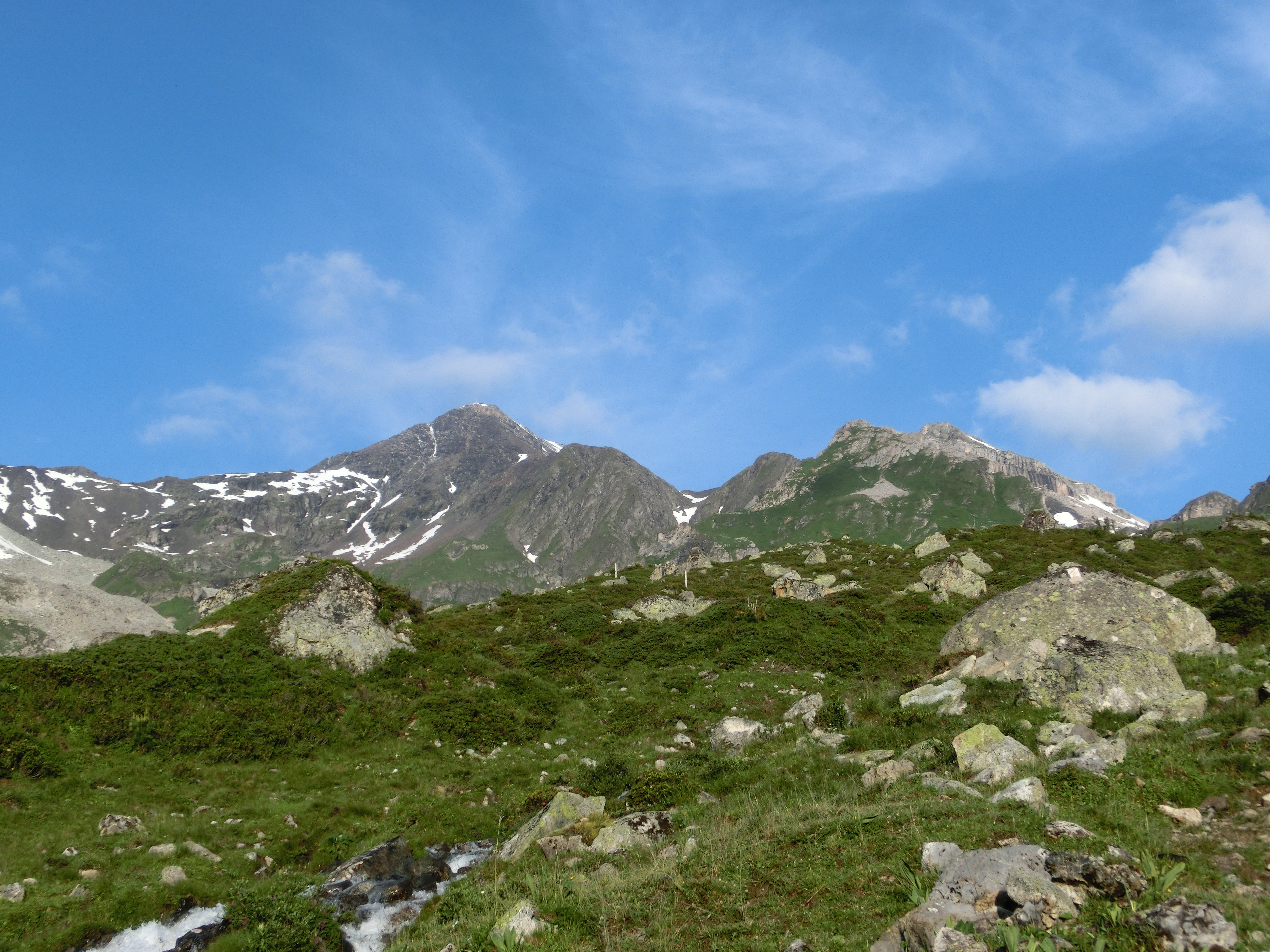 Piz Salteras und Piz Val Lunga as seen from Val Tschitta, Tinizong-Rona, Bergün/Bravuogn, Grisons, Switzerland Rumantsch: Piz Salteras und Piz Val Lunga piglia se dalla Val Tschitta, Tinizong-Rona, Bergün/Bravuogn, Grischun, Svizra